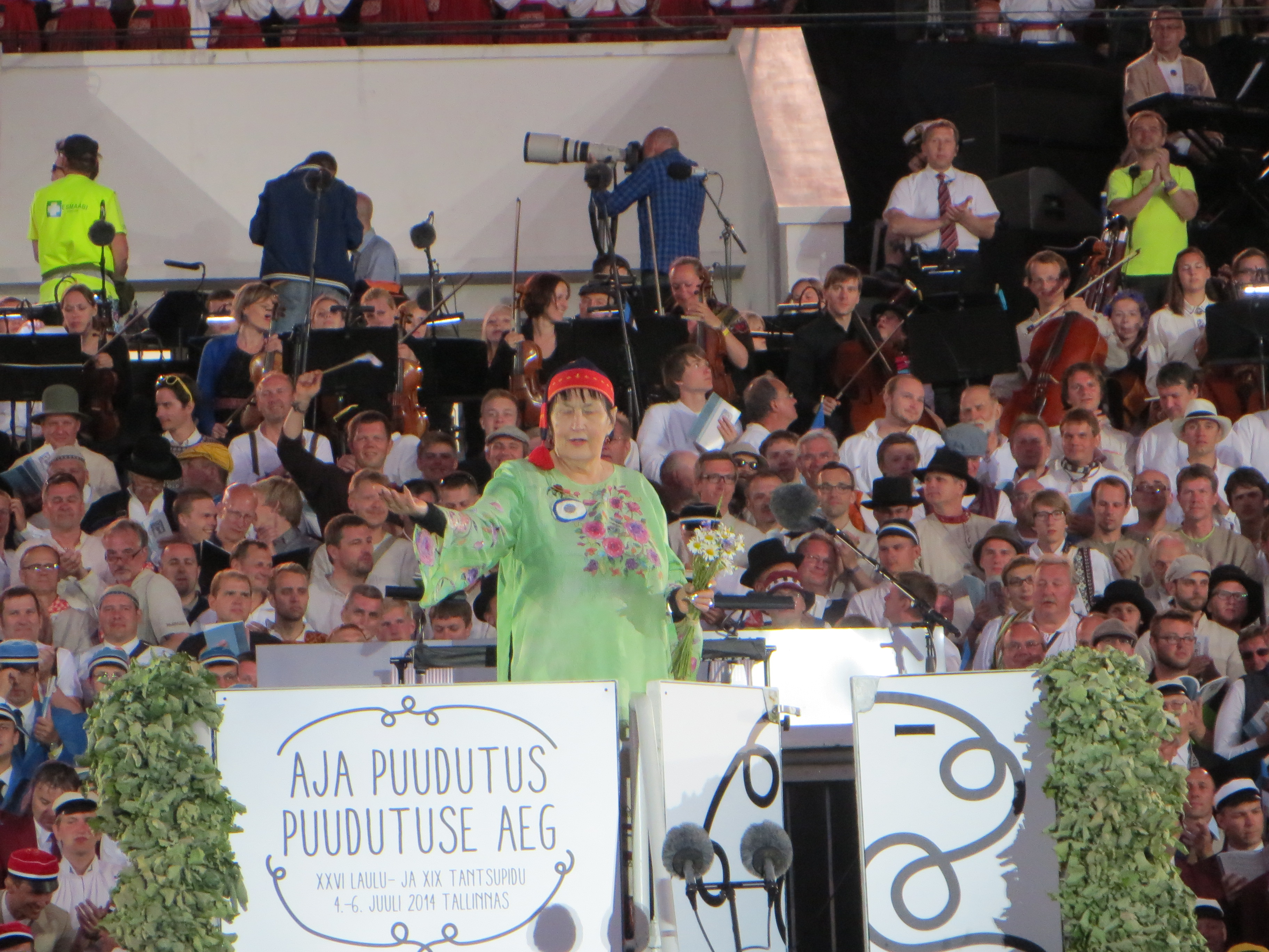 Tiia-Ester Loitme at XXVI Estonian Song Celebration